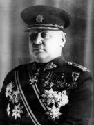 Portrait of Jan Syrovy (1888-1970)